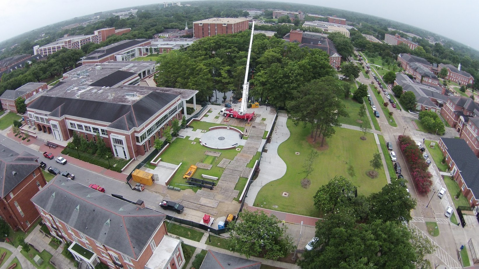 Drone of Cypress Lake